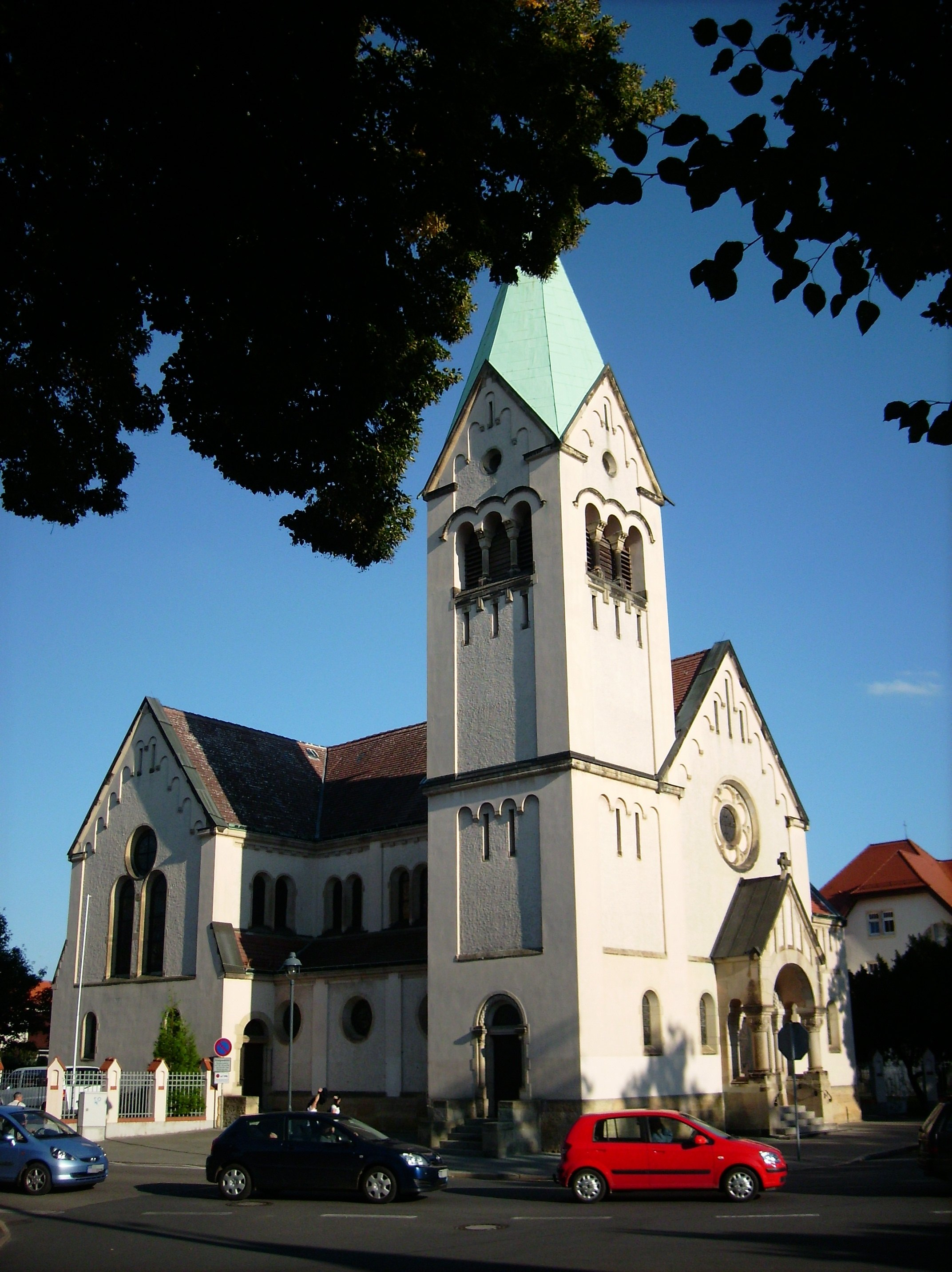 Roman Catholic Mater Dolorosa Church in Torgau (Nordsachsen district, Saxony)